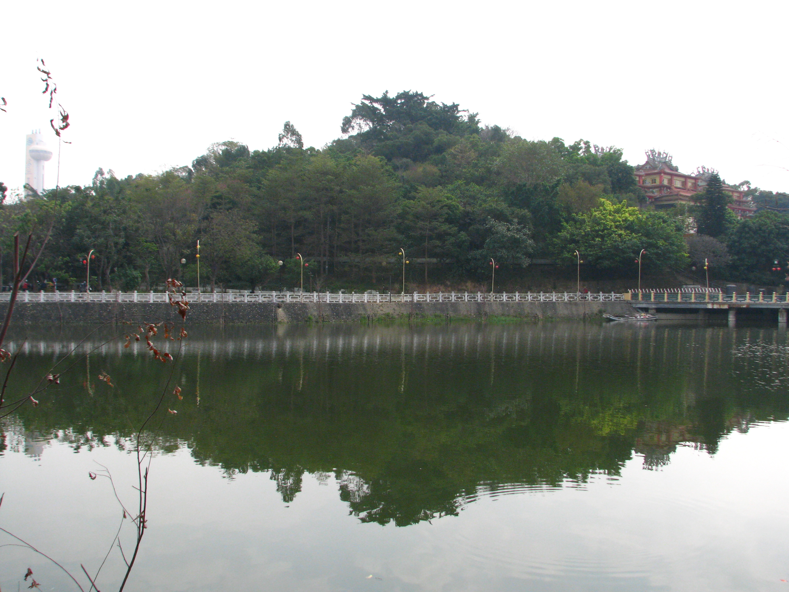 Mount Shi, Sanmin District, Kaohsiung City, Taiwan